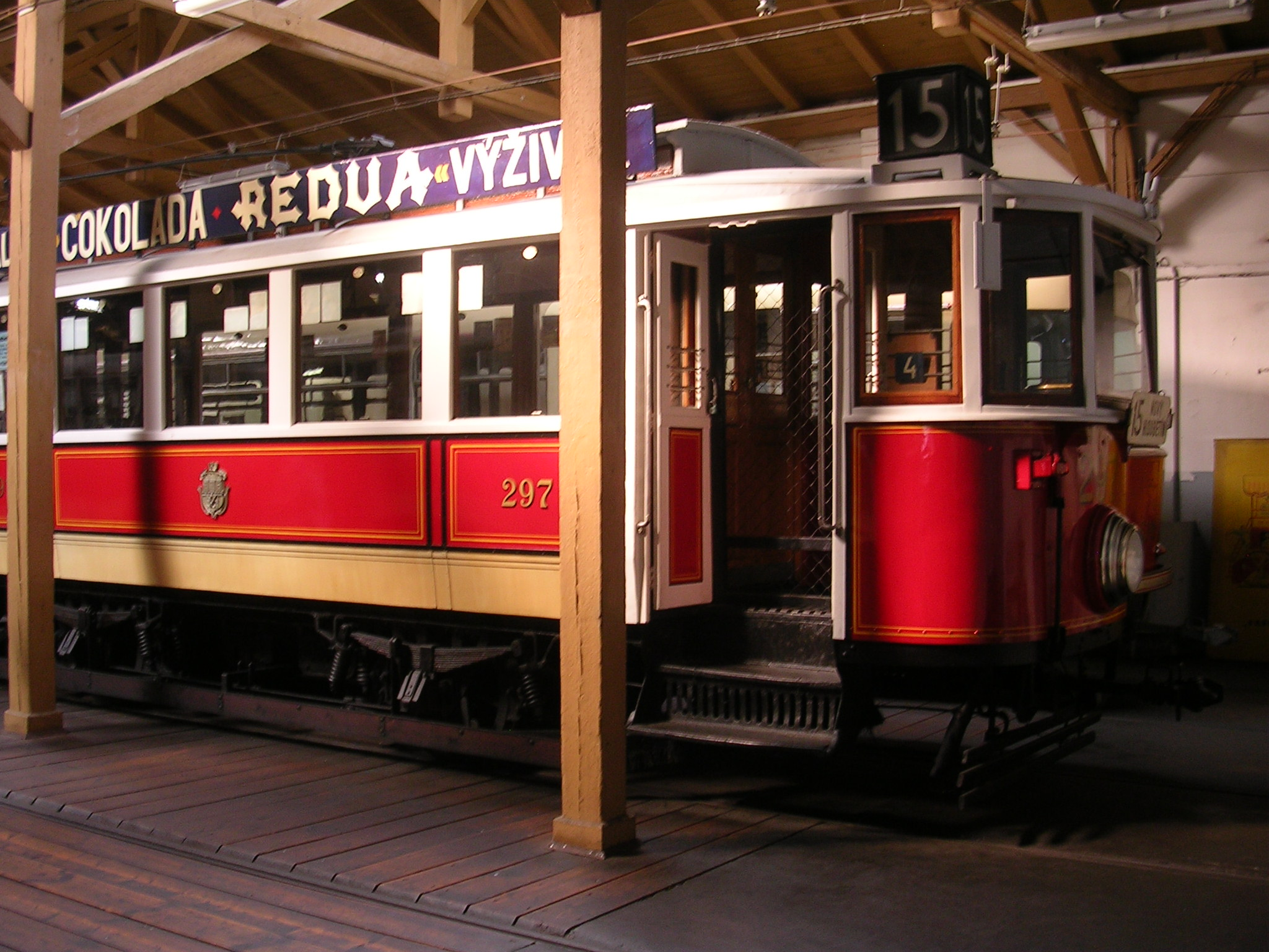 Střešovice, Prague, the Czech Republic. Střešovice tram depot and transport museum. A historical tram.